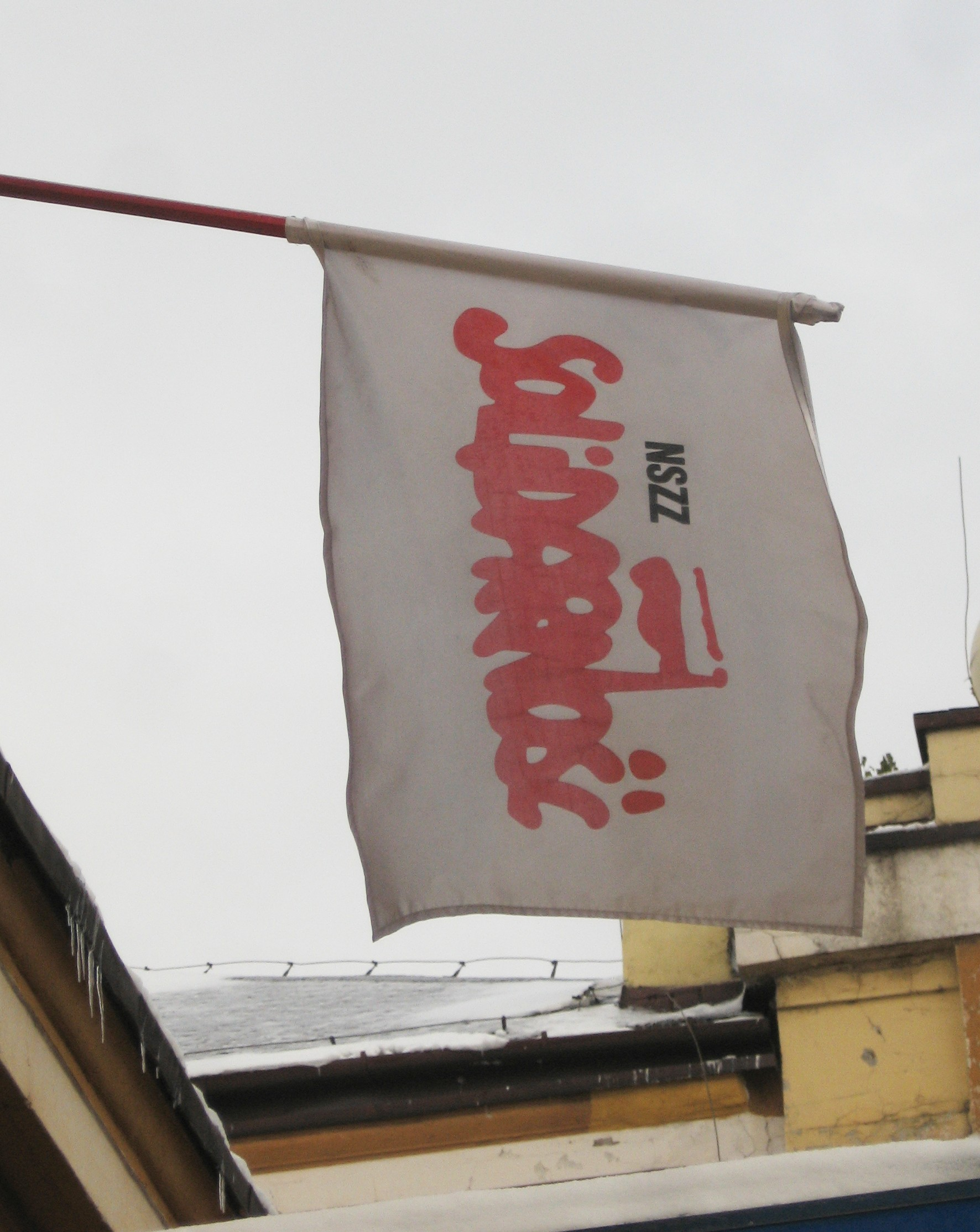 Flag of trade union Solidarity in town Zawiercie on railway station